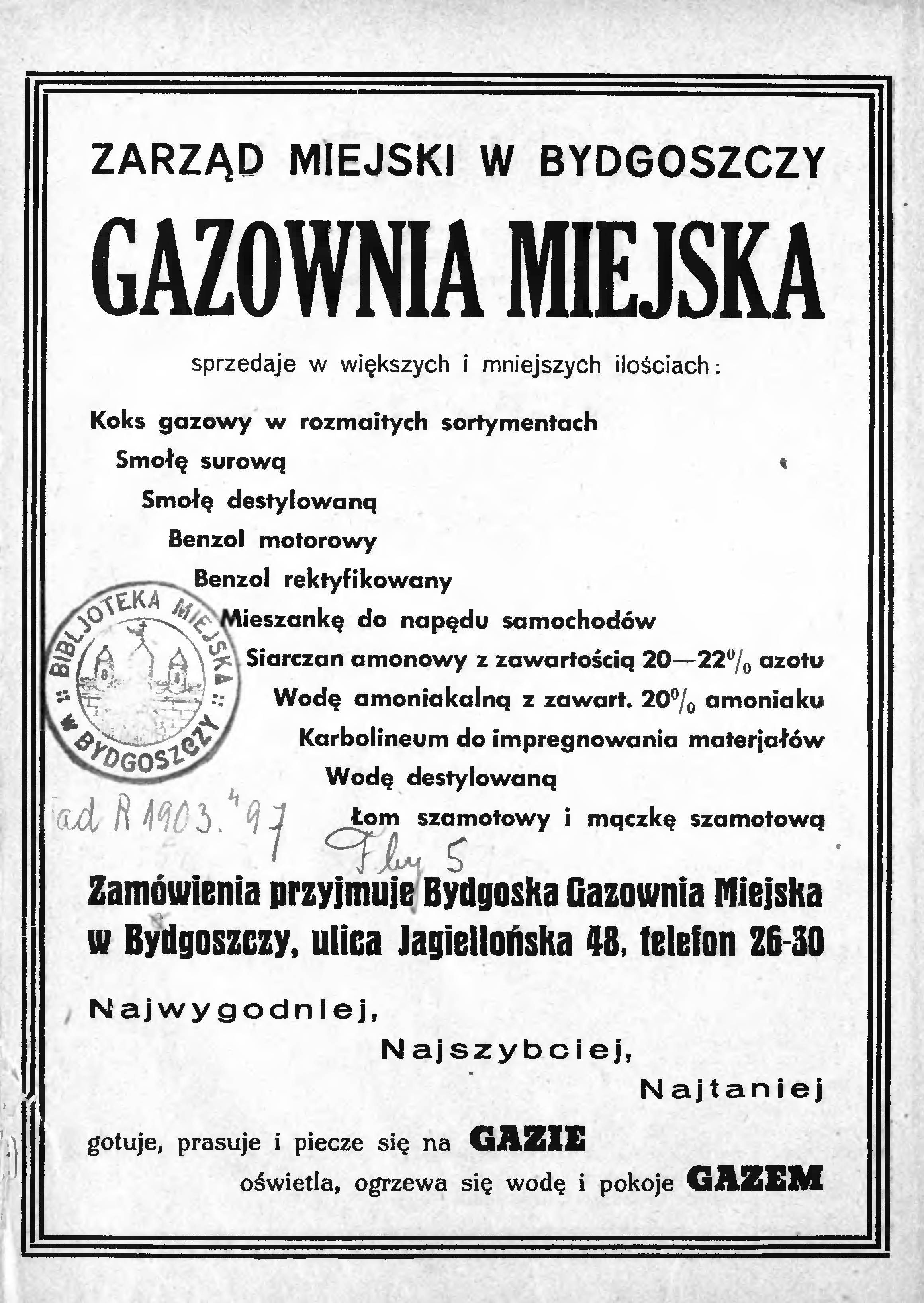 Avertising City Gaz ca 1936